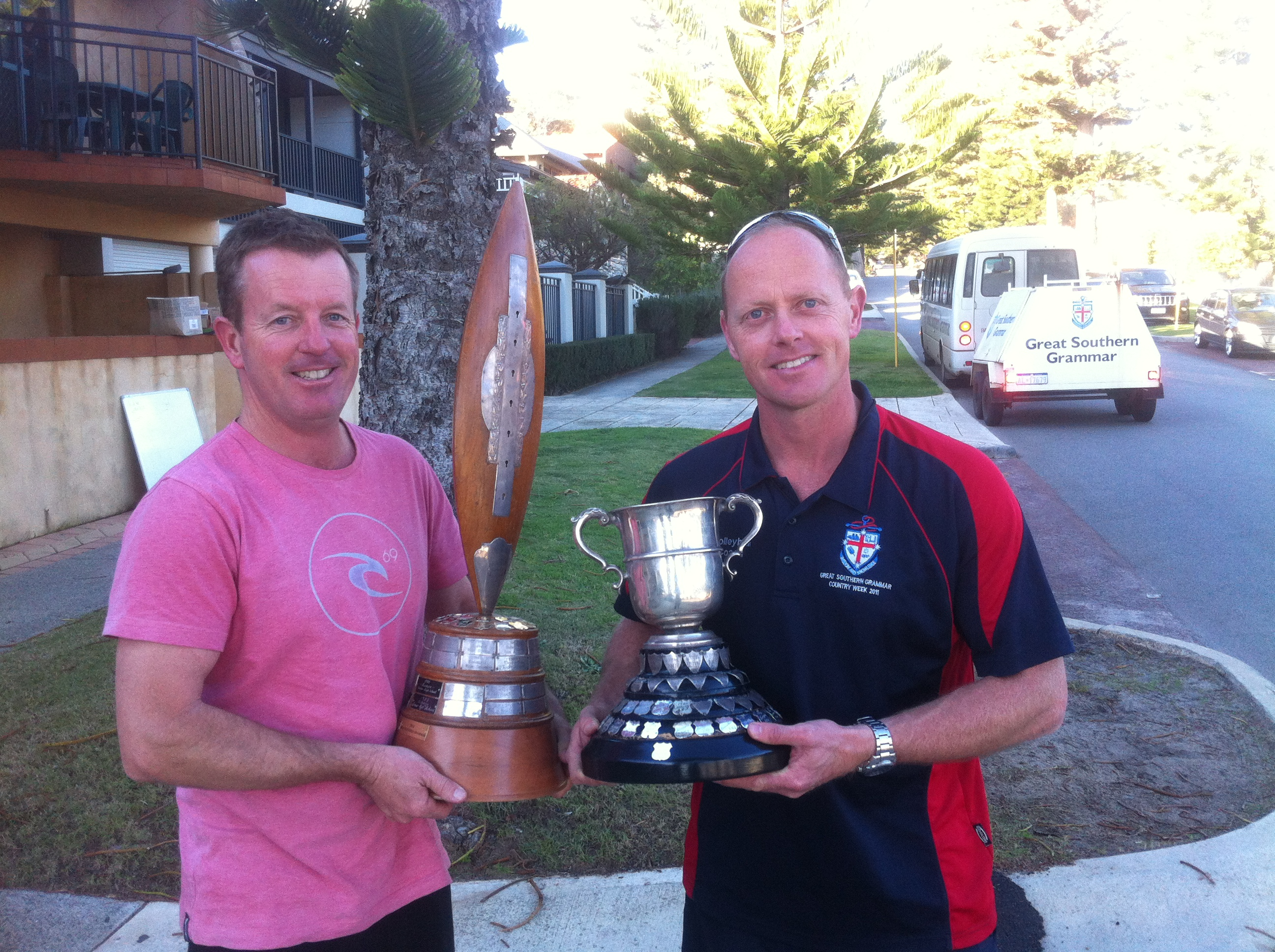 Girls Hockey and Boys AFL Football countryweek trophies